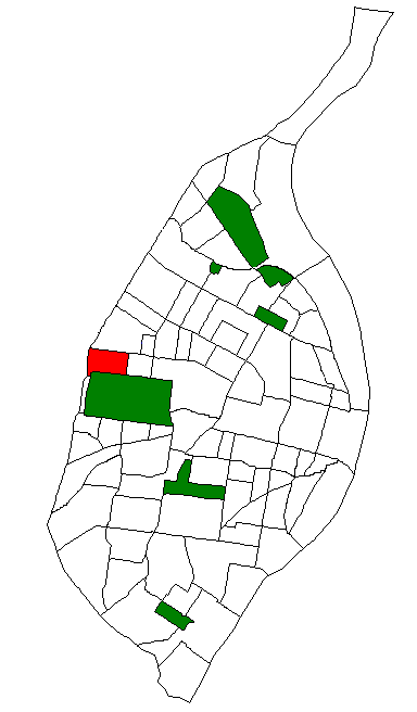 Map of St. Louis neighborhood #46